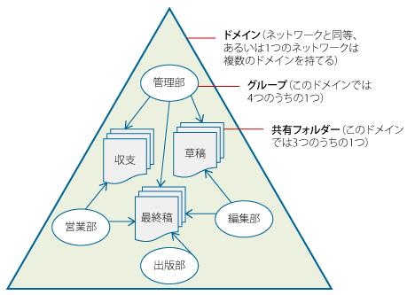 A simplified example of a publishing company's internal network. Translated in